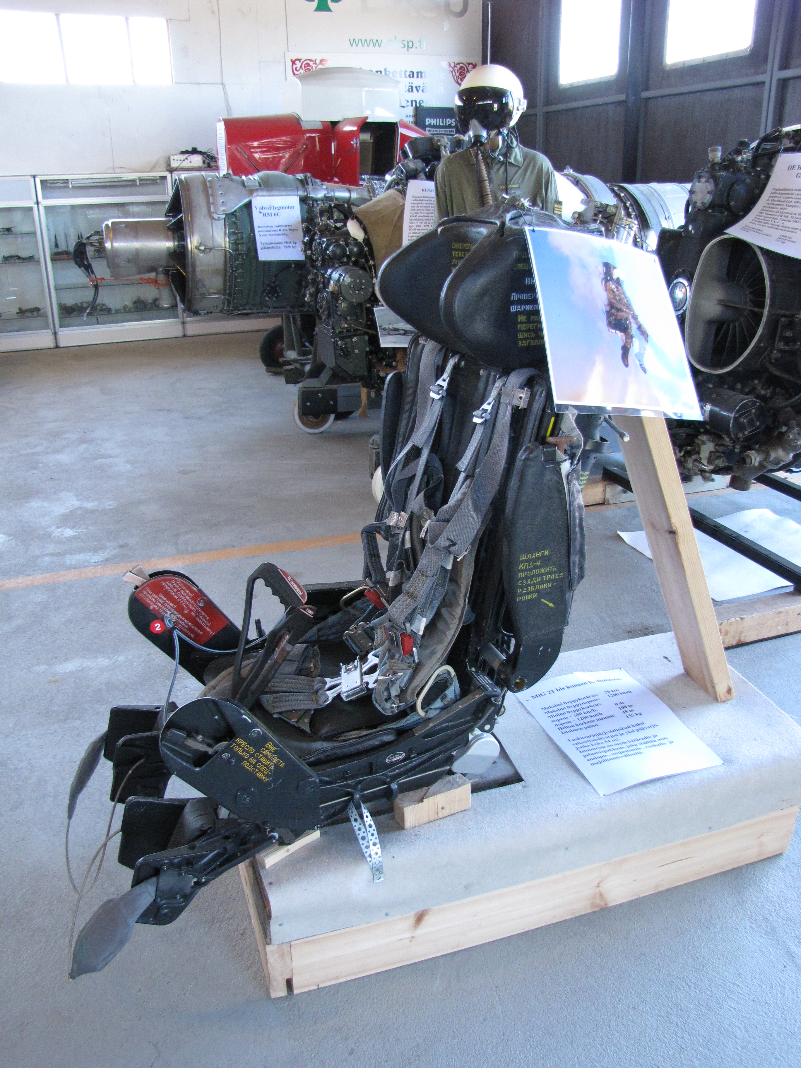 Ejector seat of MiG-21 bis fighter.